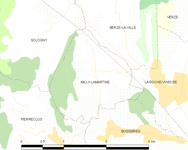 Map of French municipality